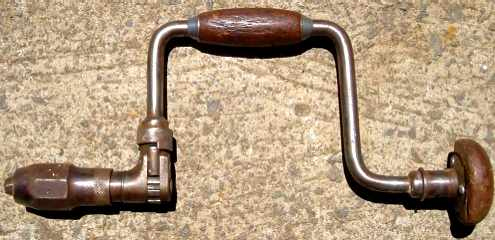 Bit and brace photographed by me. Securiger 15:00, 23 Feb 2005 (UTC)